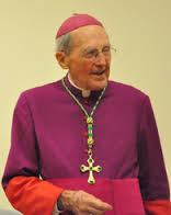 His Lordship Bishop Meeking